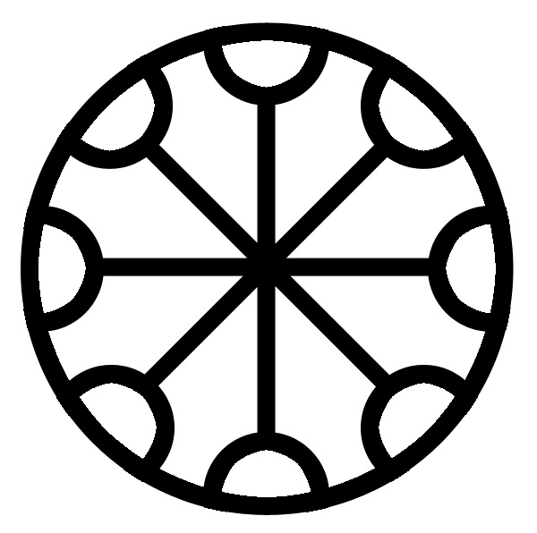 Board for a Roman "bear" board game.